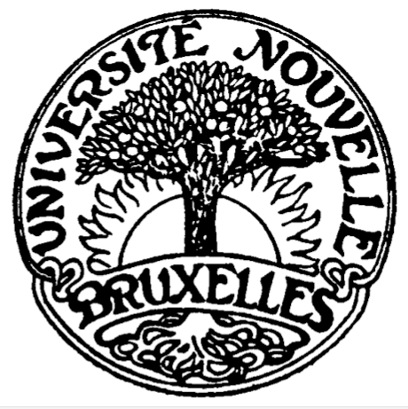 Stamp of the Université Nouvelle